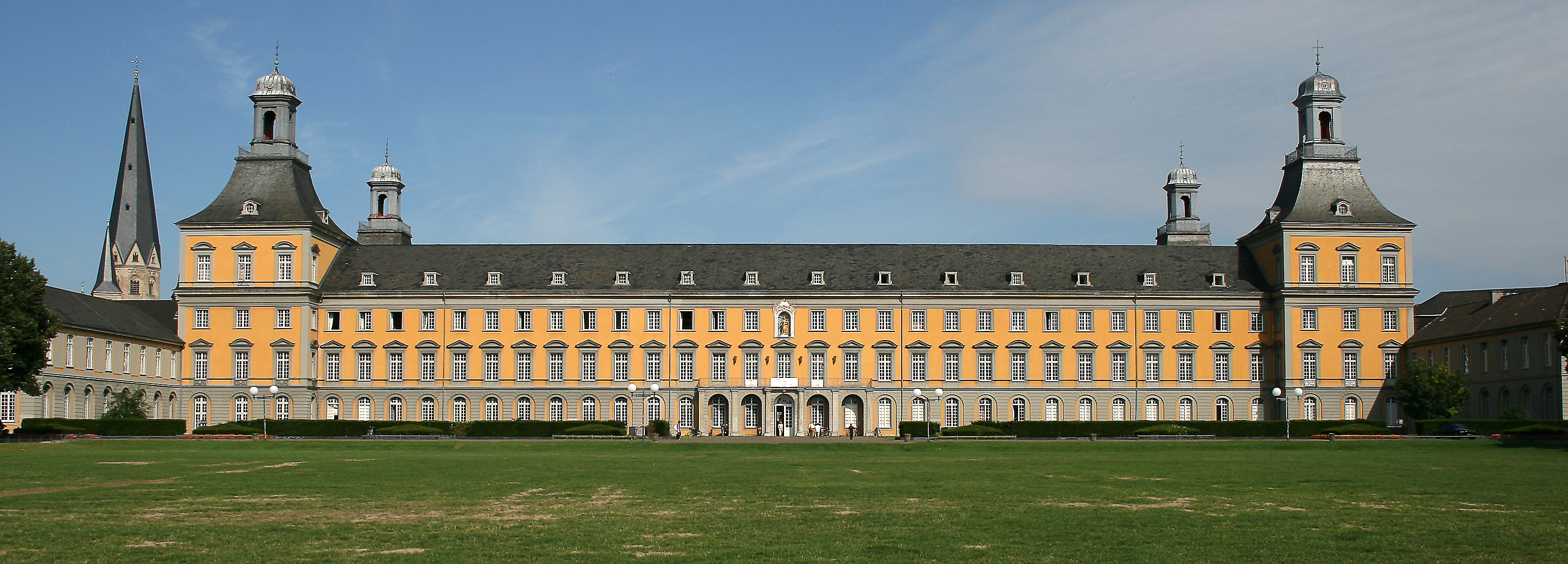 Southern facade of the main building of the University of Bonn, formerly residence of the prince-elector